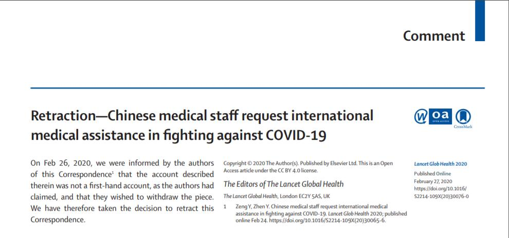 Comment on The Lancet Global Health